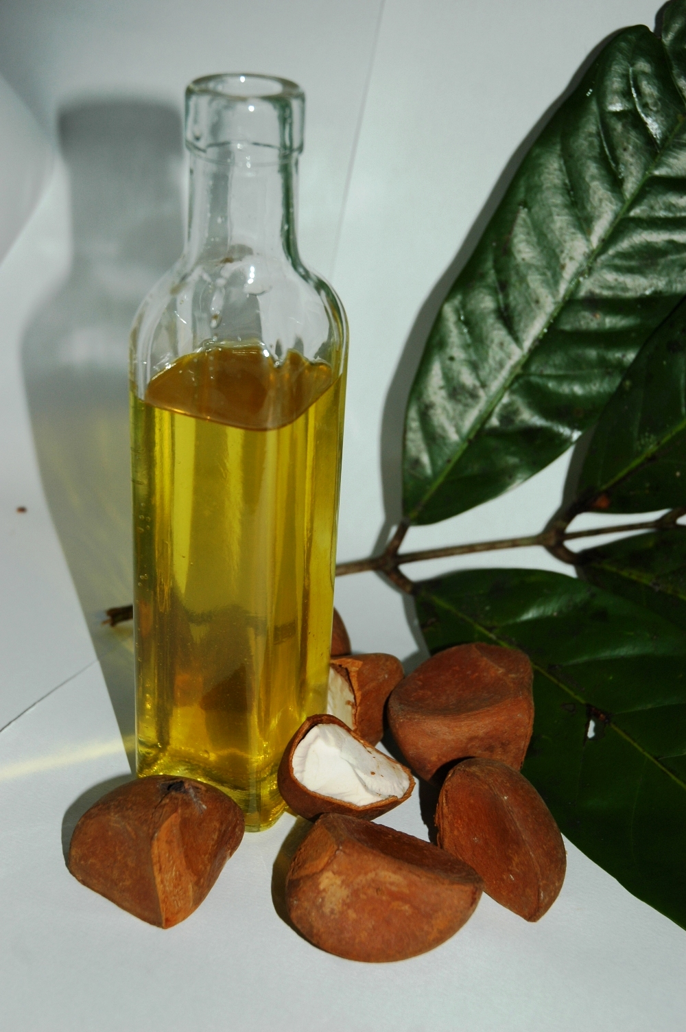 Virgim oil of crabwood